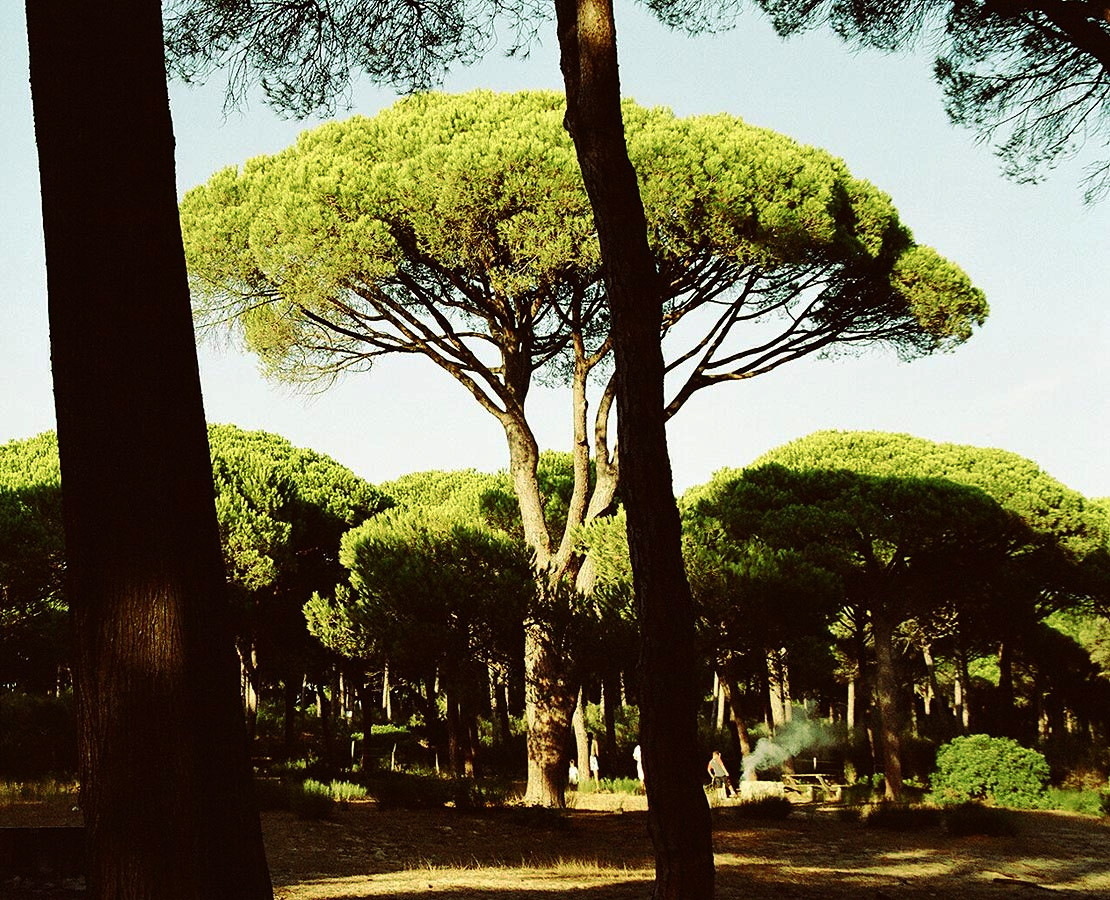 Stone pines. Picture taken in the La Breña forest, between Los Caños de Meca and Barbate at the Costa de la Luz (Andalucia, Spain).